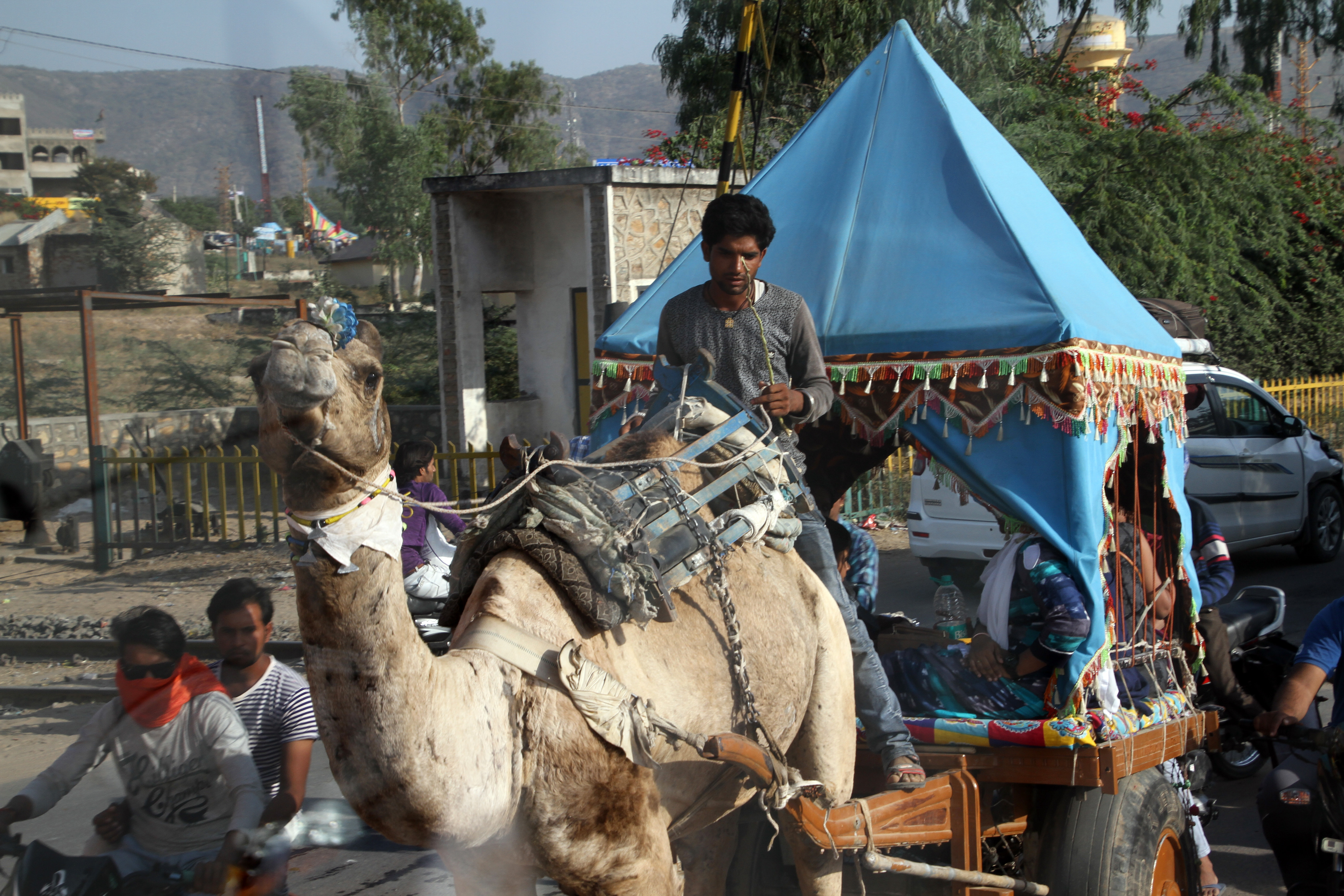 Pushkar Fair